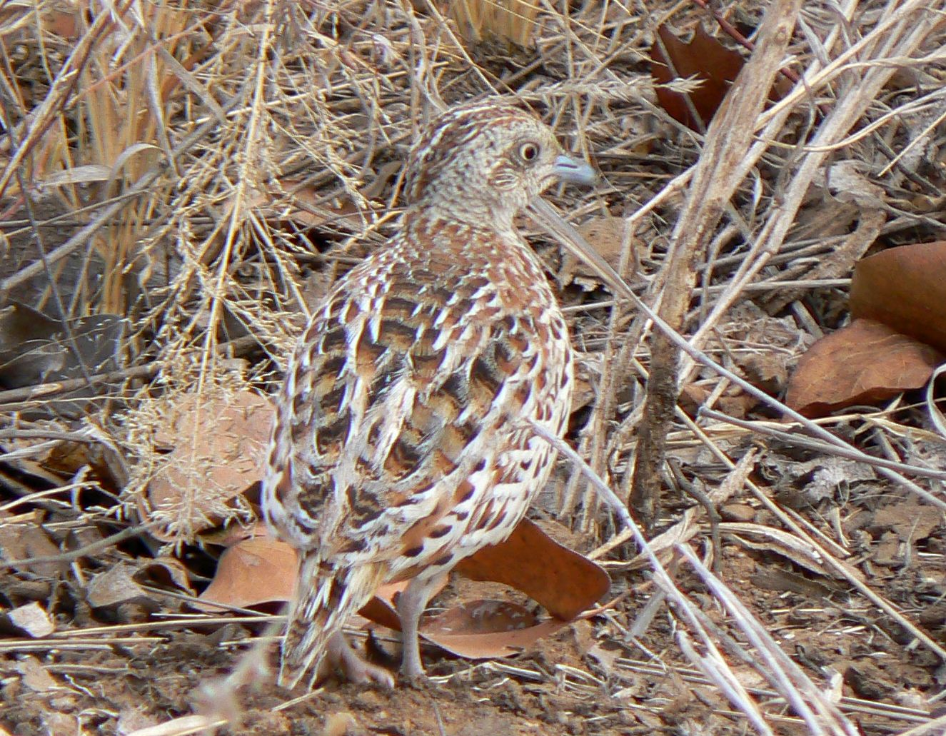 Turnix sylvaticus Common buttonquail South Africa, Kruger Nationl Park